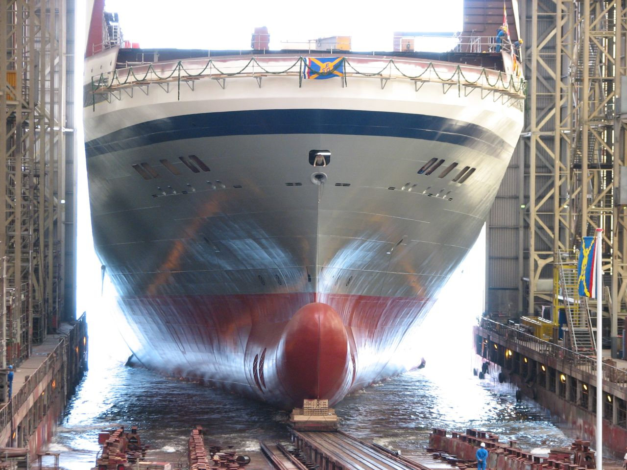 launch at the yard of Flensburger Schiffbau Gesellschaft, Germany